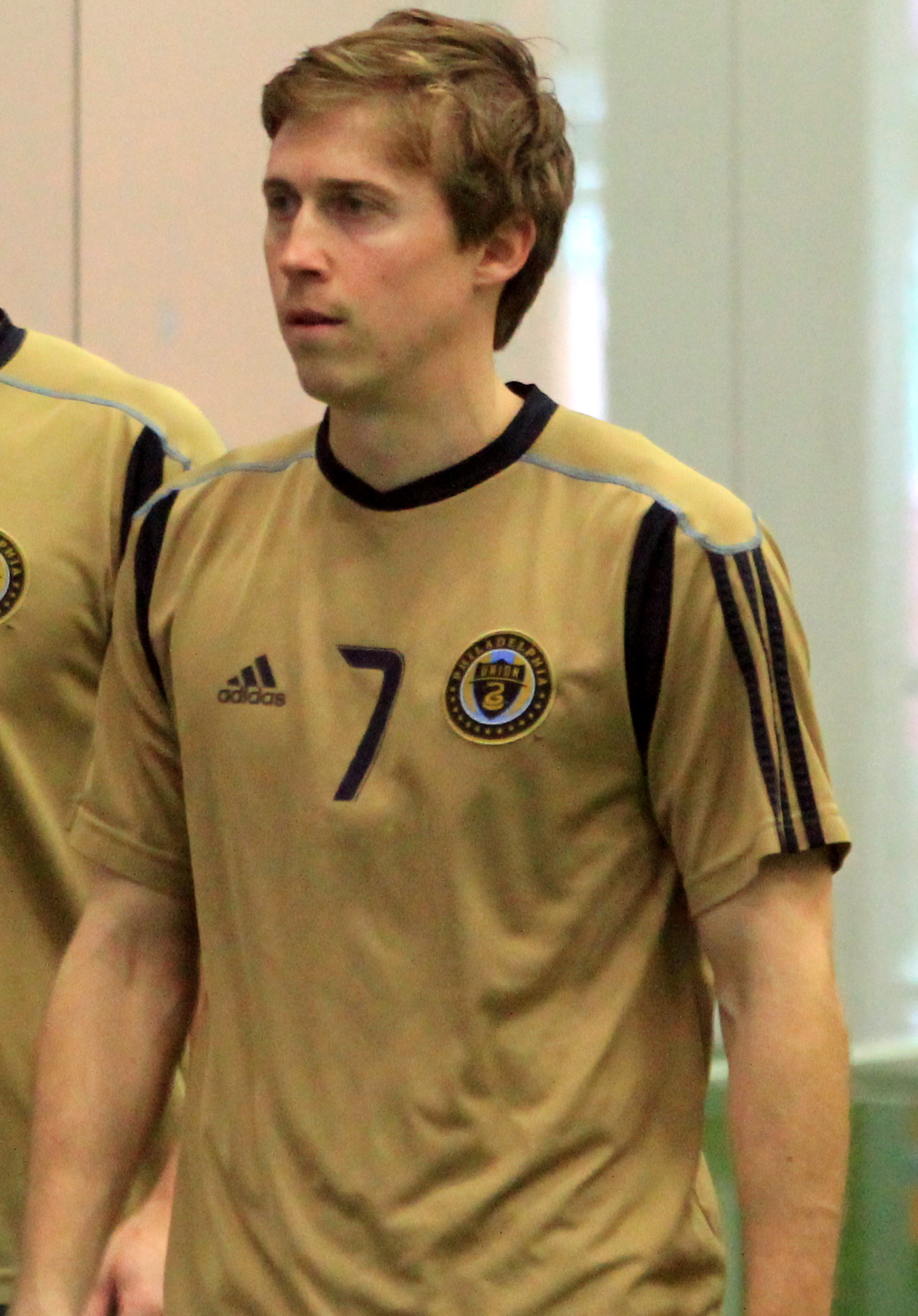 Brian Carroll participating in preseason training, with the Philadelphia Union, at YSC Sports in Wayne. January 27, 2011.